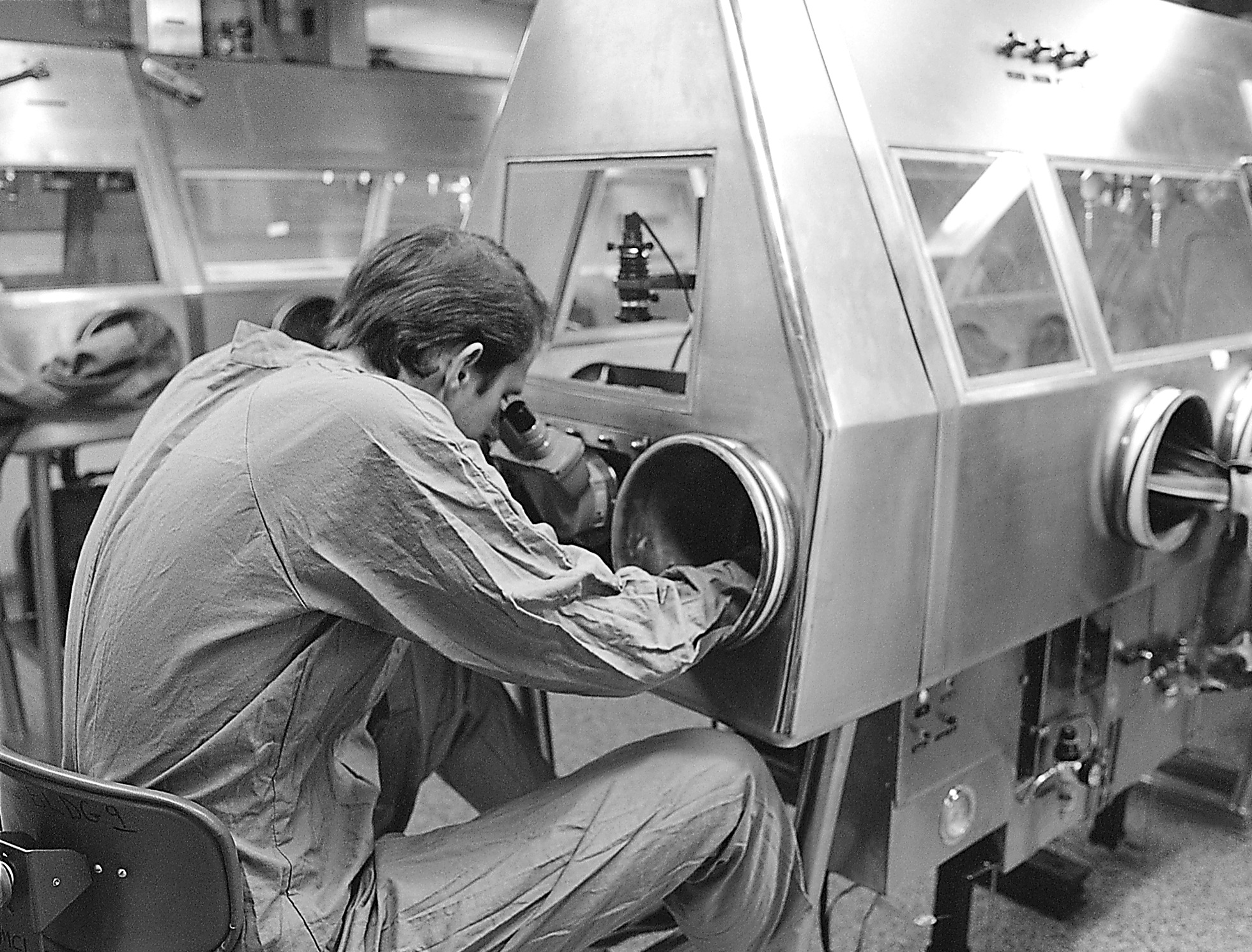 This 1978 photograph depicted Dr. Russell Regnery as he was seated in a CDC Maximum Containment “Cabinet Lab”. His hands are shown inserted into the cabinet, though protected inside its portals by airtight gloves. Scientists working within biosafety laboratories, known as BSL, must wear protective garments, some of which are air-tight, thereby, protecting the technician from exposure to highly infectious pathogenic organisms. In this case, the pathogens were sequestered inside an air-tight observation cabinet, therefore, the need to clad the scientist in an air-tight suit was not required.